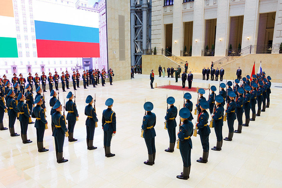 Session of the Russian-Indian intergovernmental commission on military and technical cooperation